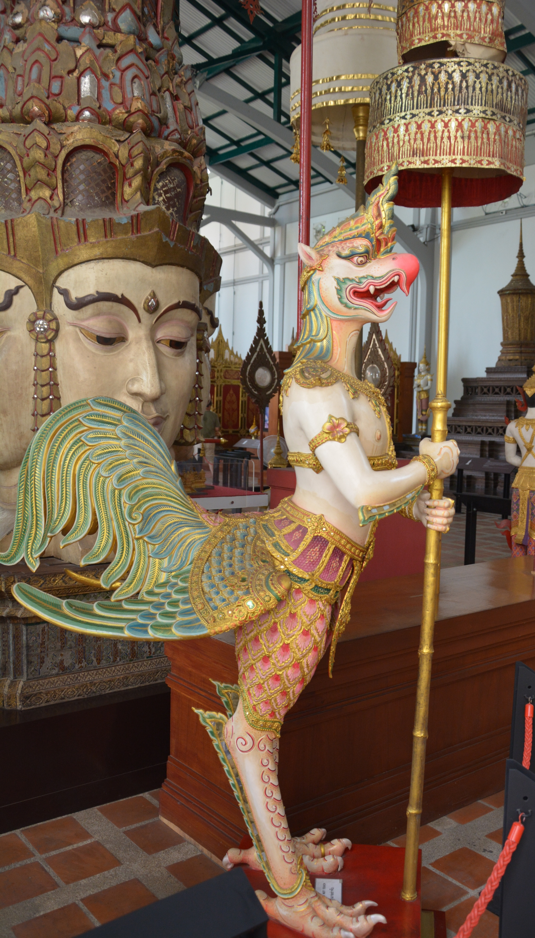 Colored Tantima bird, serving for royal funerals. Bangkok National Museum, Thailand